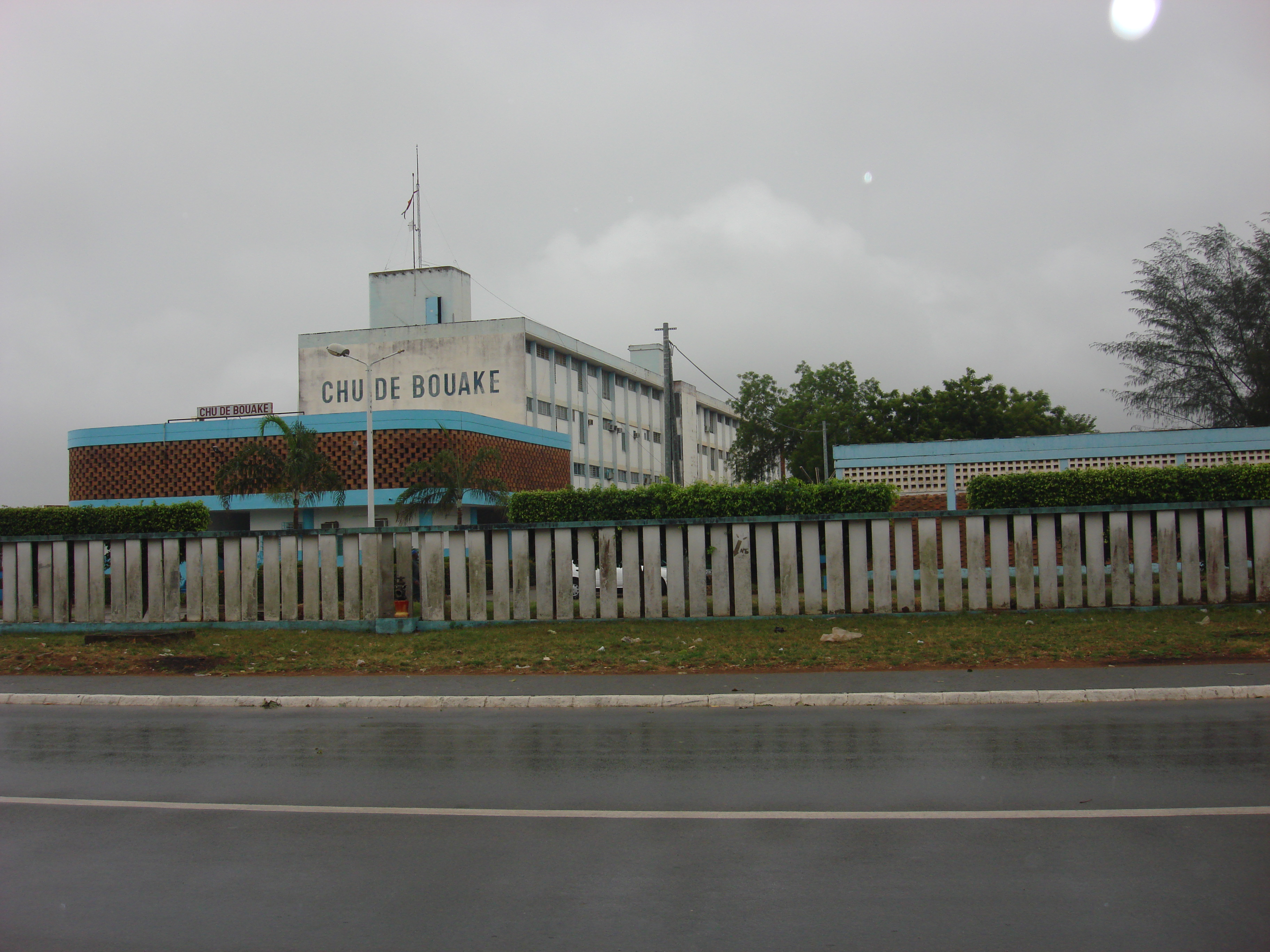 University hospital complex of Bouaké (Ivory Coast)